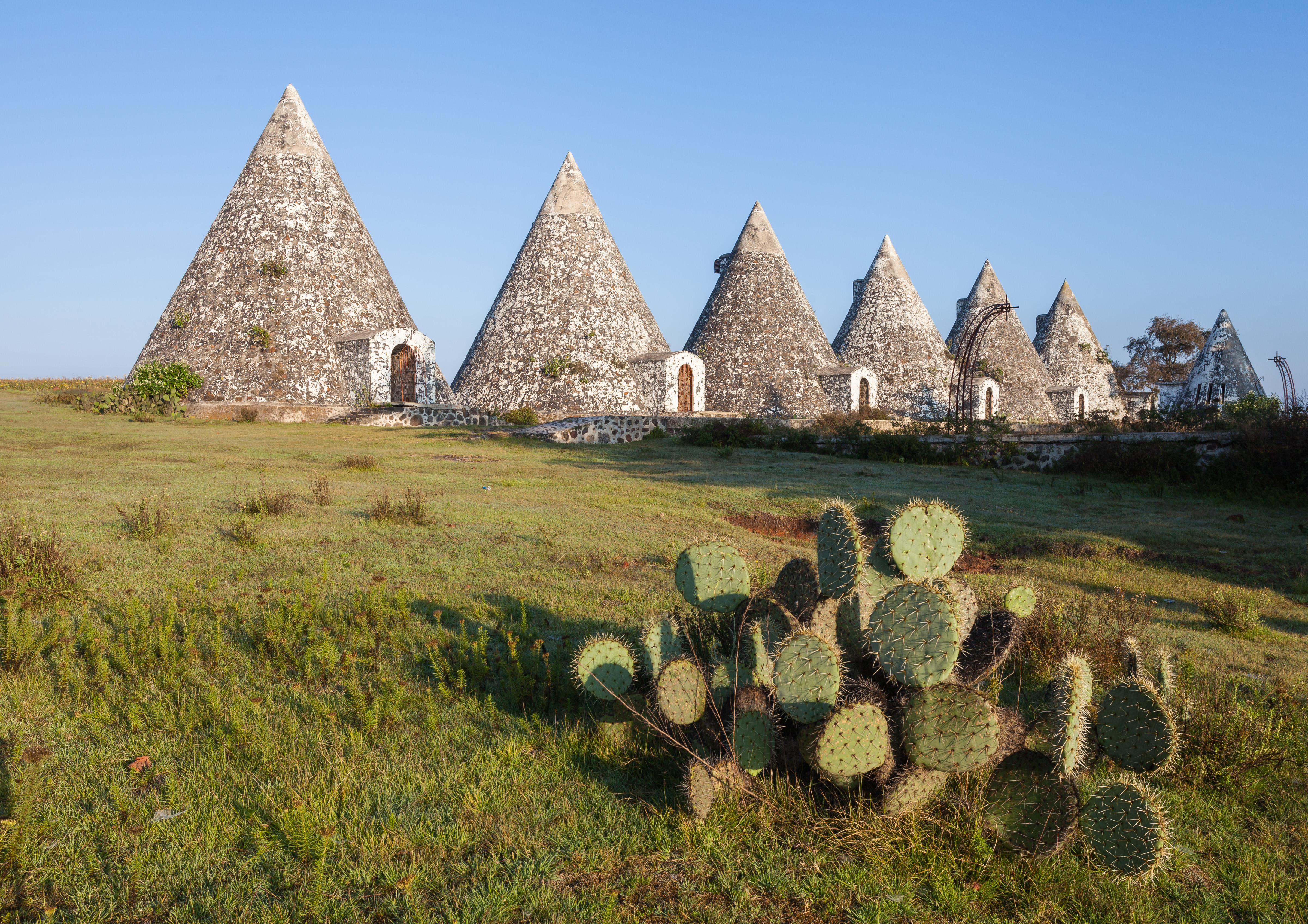 Silos, Acatlán, Hidalgo, Mexico